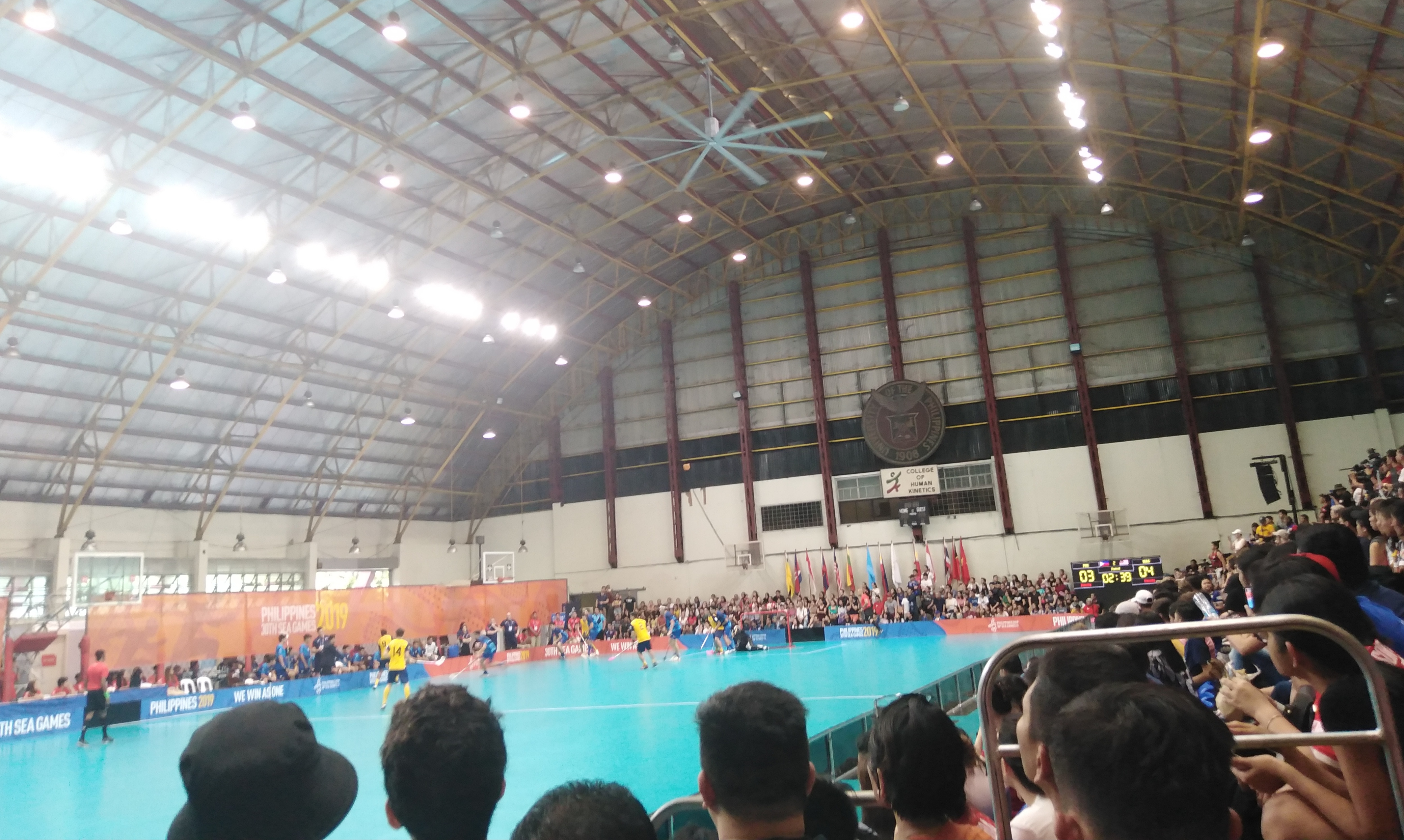 The bronze medal game of the men's floorball event of the 2019 Southeast Asian Games featuring the national teams of Malaysia and the Philippines which was held at the UP College of Human Kinetics Gymnasium in Quezon City.